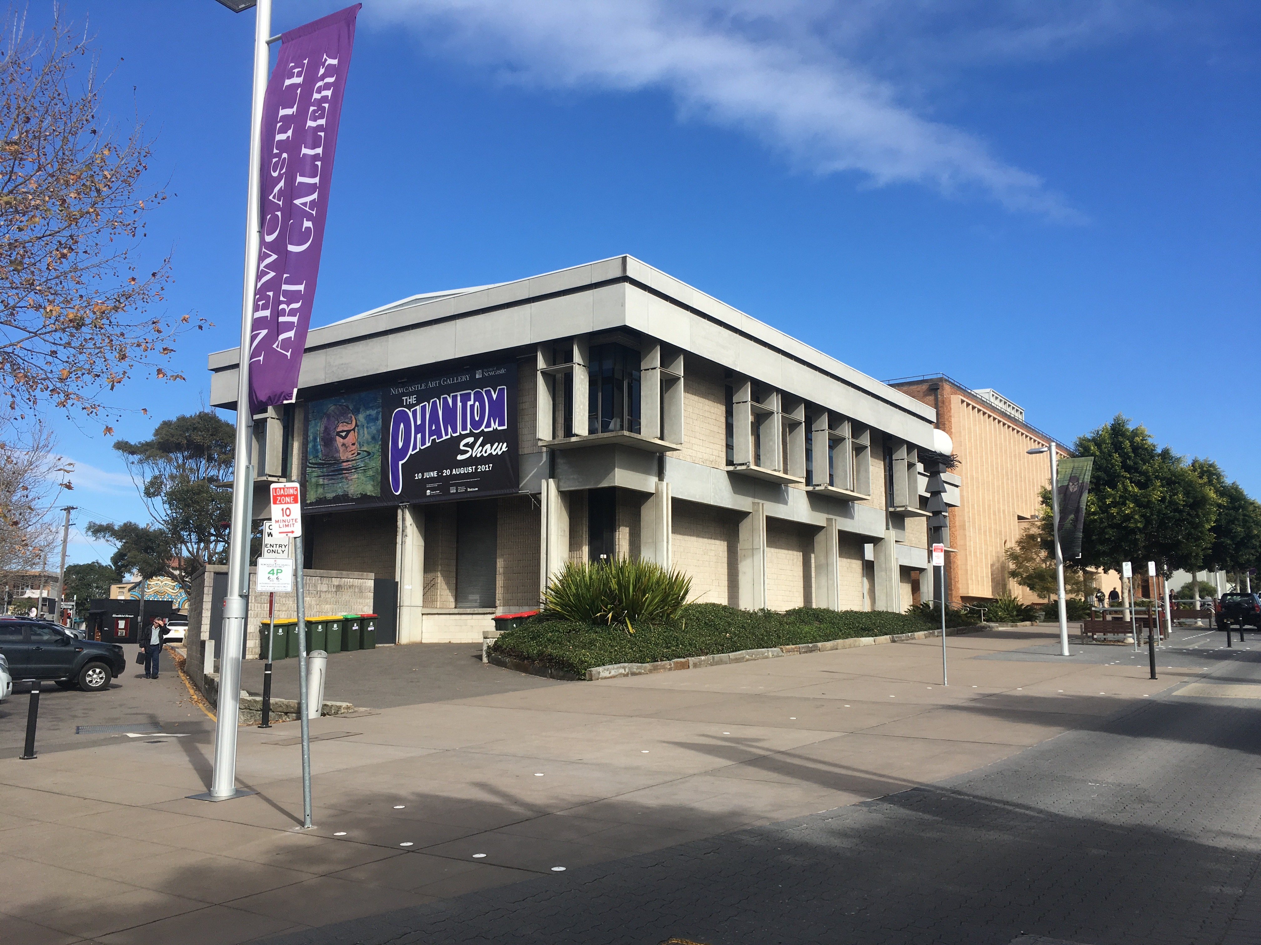 Newcastle Art Gallery as viewed from Darby St.